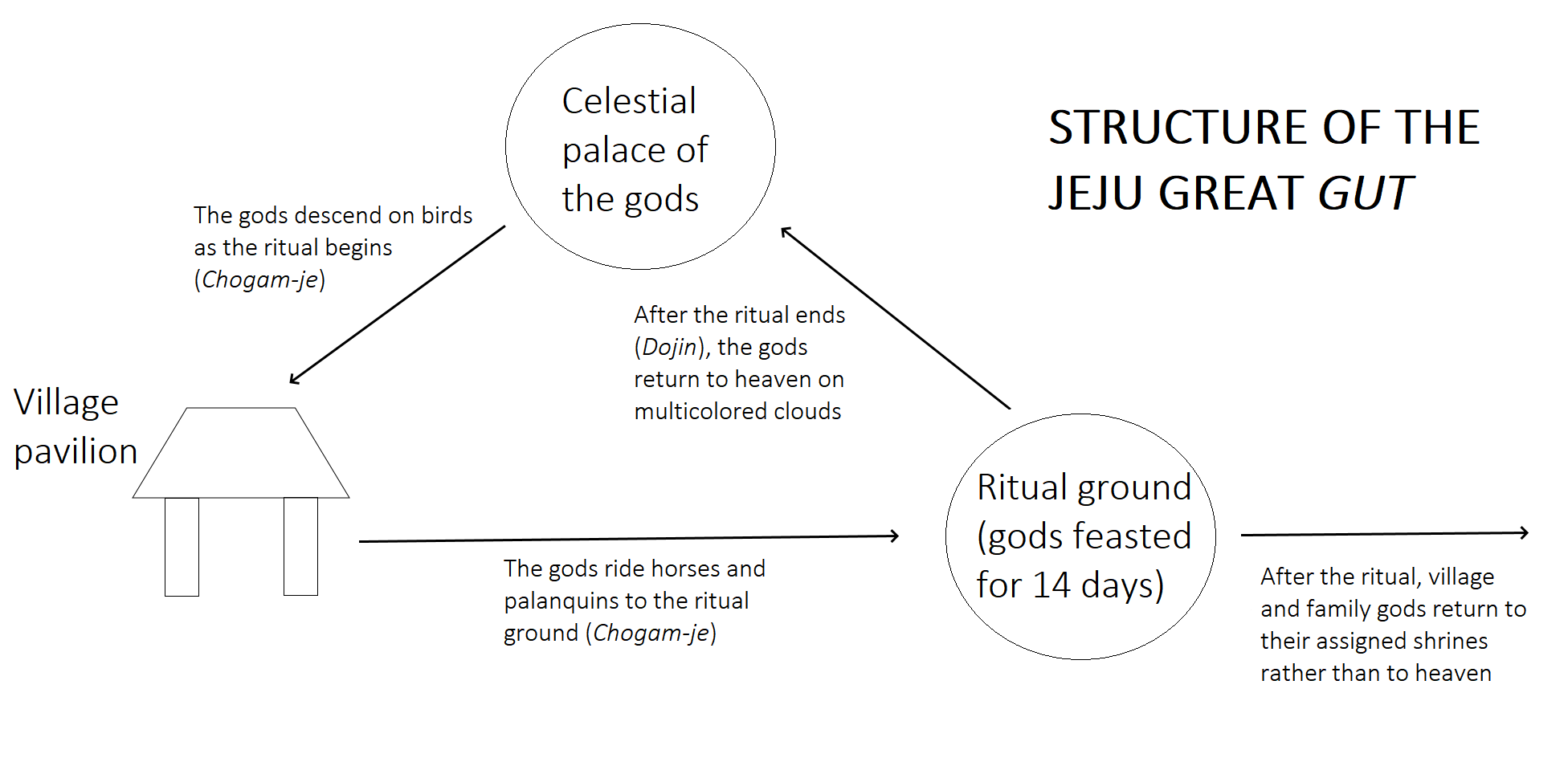 Diagram of the Jeju Great Gut, based on Lee Soo-ja 2005, Keun-gut yeol-du-geori-ui gujo-jeok wonhyeong-gwa sinhwa, p. 304 but simplified.